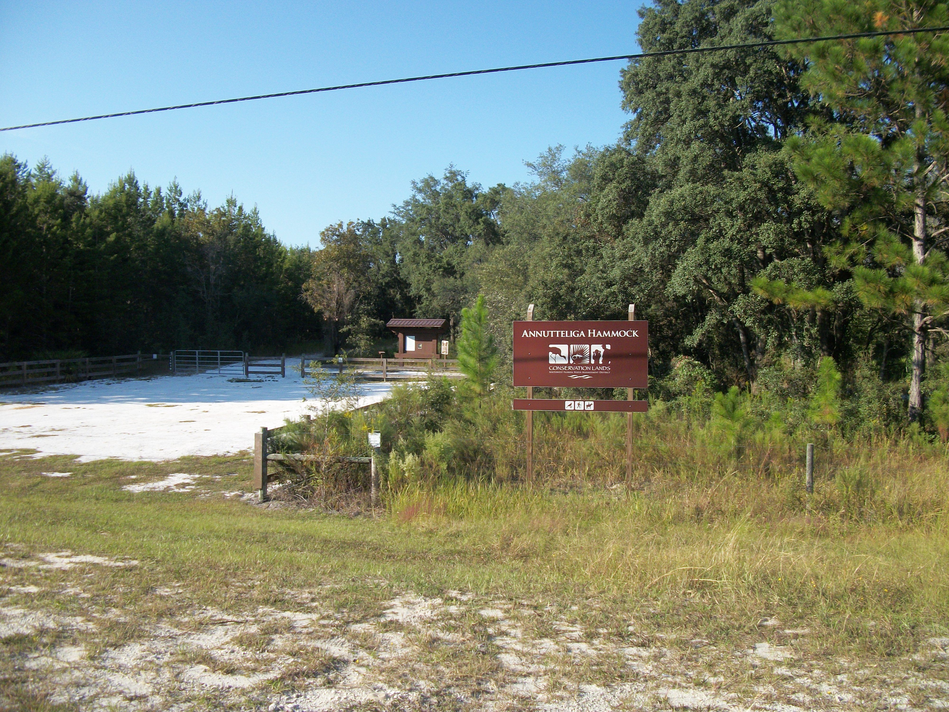 Sign for the Annutteliga Hammock SWFMD Preserve on Hernando County Road 476 in Northwestern Hernando County, Florida.